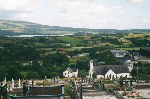 View Looking Towards Lough Allen Taken from Above Arigna Graveyard and Church